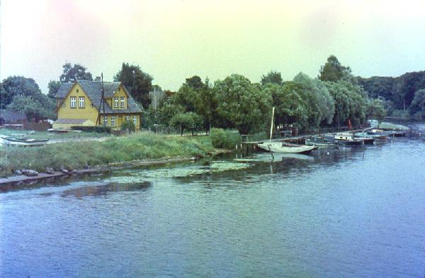 Sauga River in Pärnu